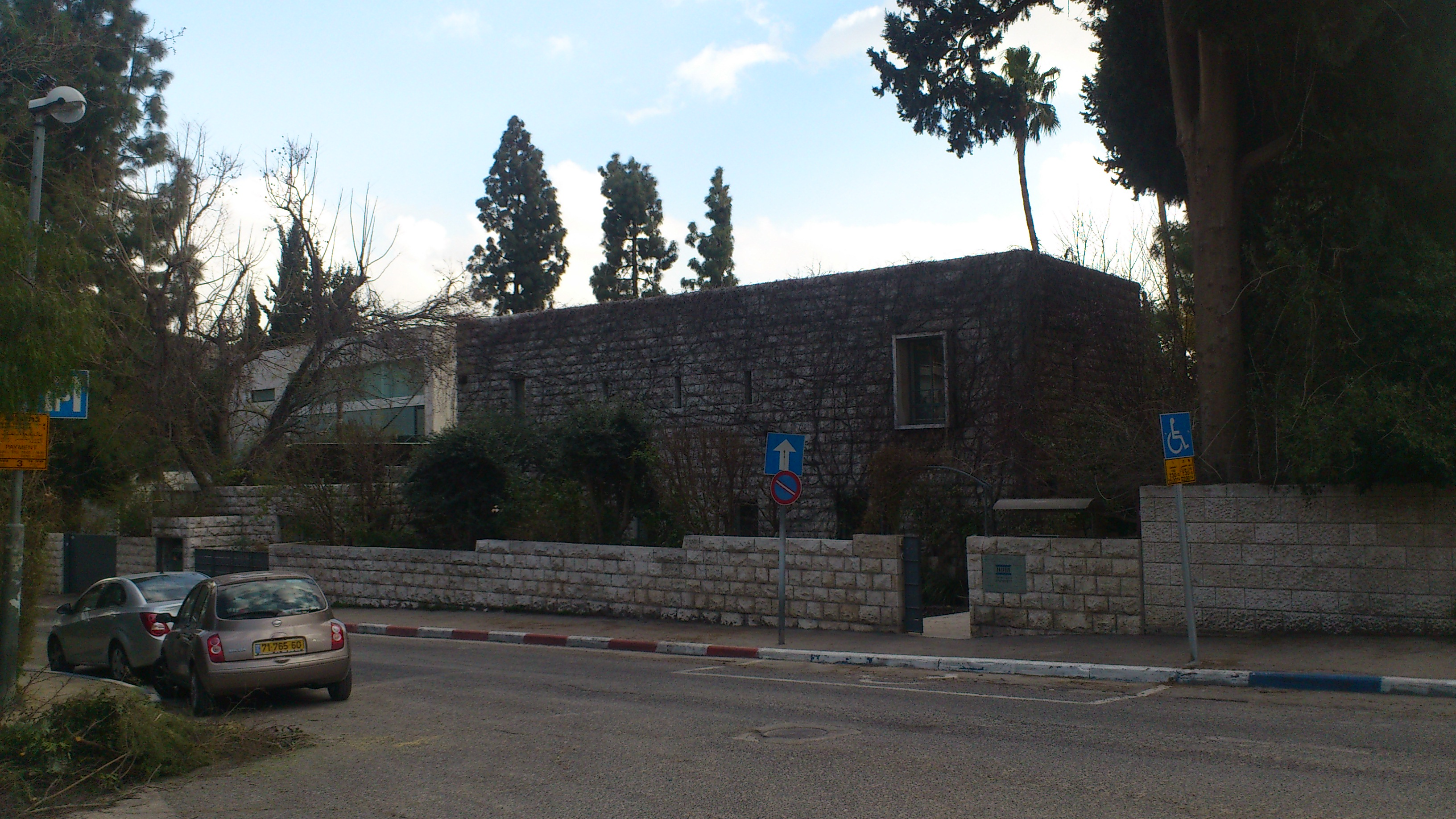 Israel Democracy Institute